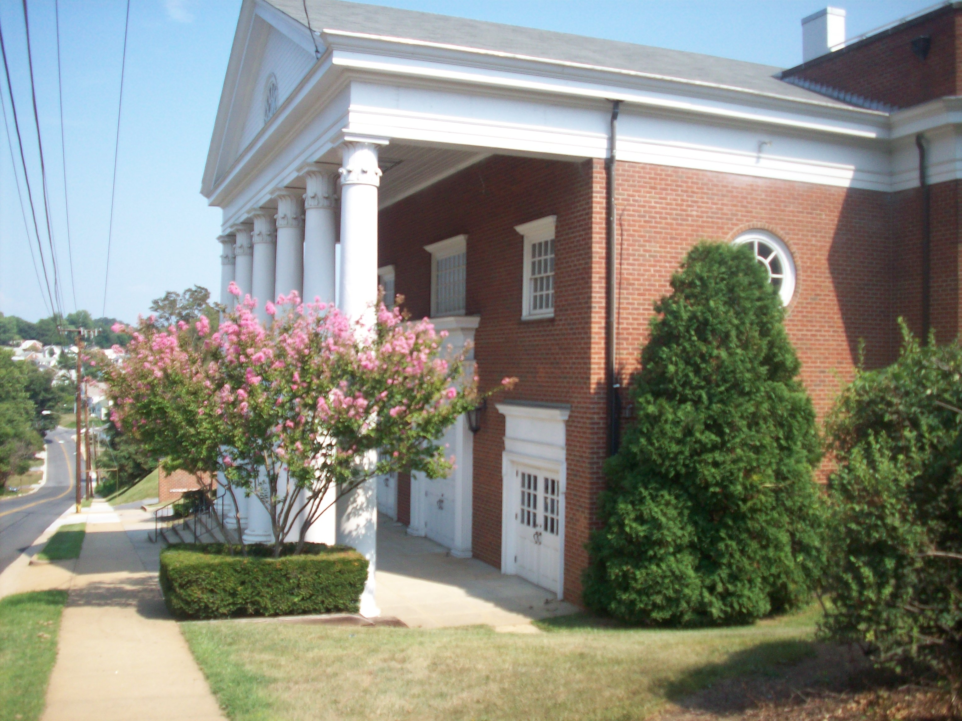 Picture of the Old Thomas Road 2007